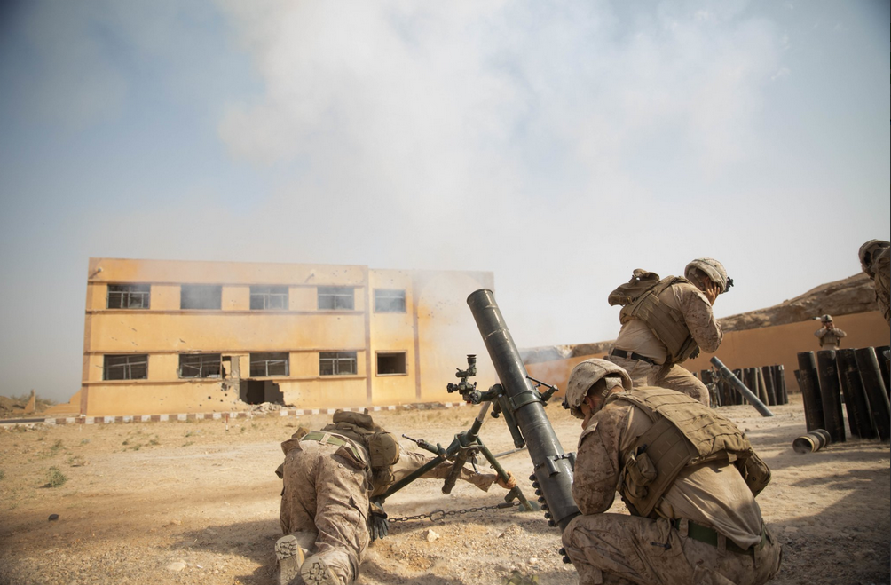 U.S. Marines fire an M120 Mortar round at a known ISIS target in the Middle Euphrates River Valley Deir ez-Zor province, Syria, October 4th.